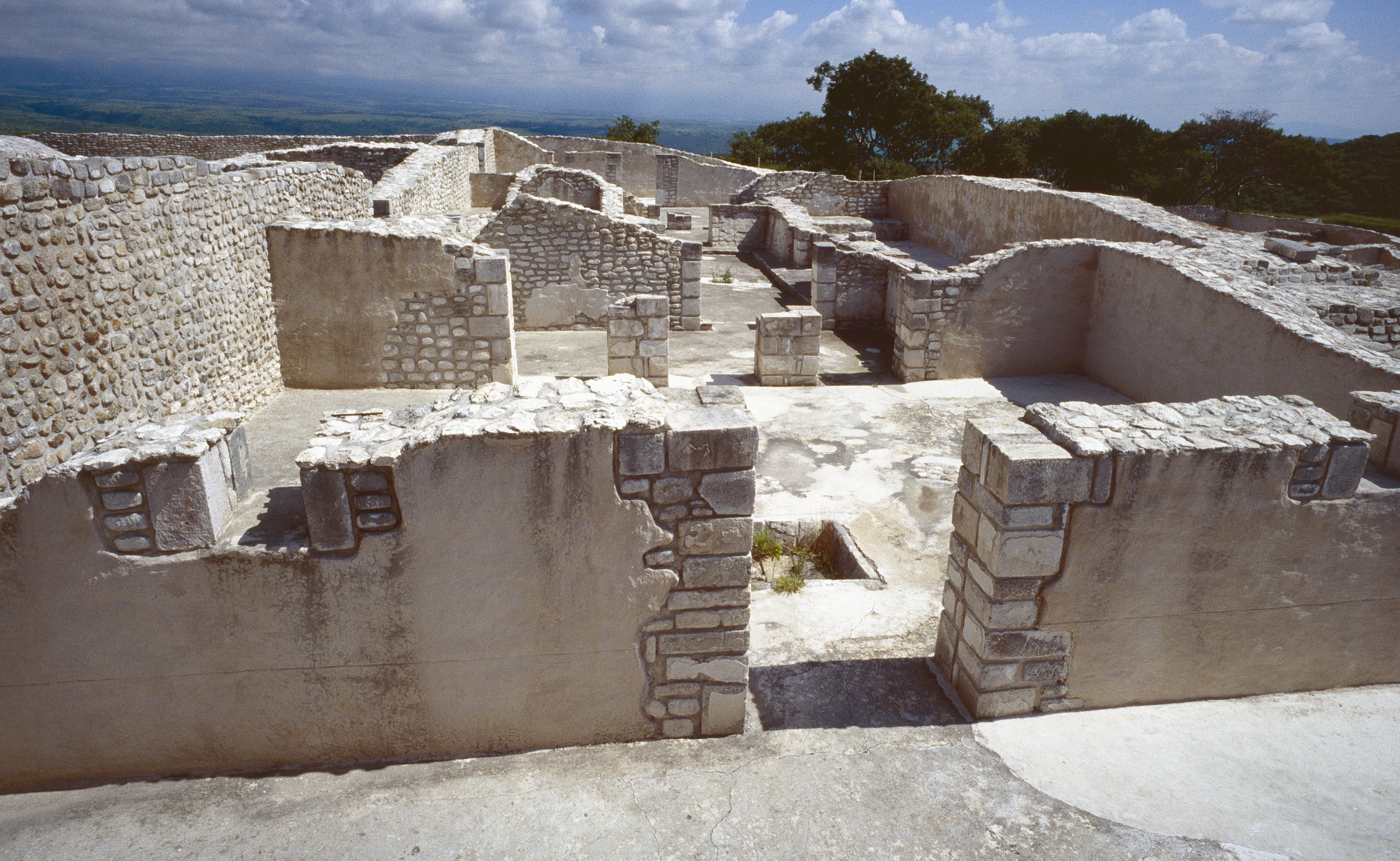 Xochicalco, Morelos, Mexico: Acropolis